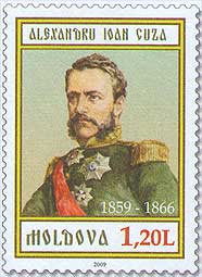 Alexandru Ioan Cuza